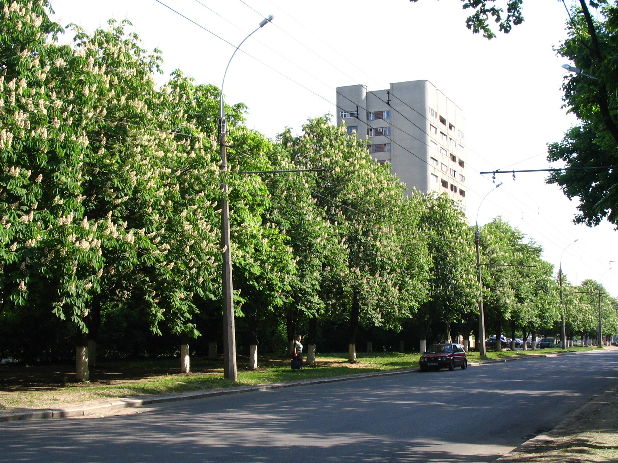 Prospekt Marshala Zhukova, Kharkiv